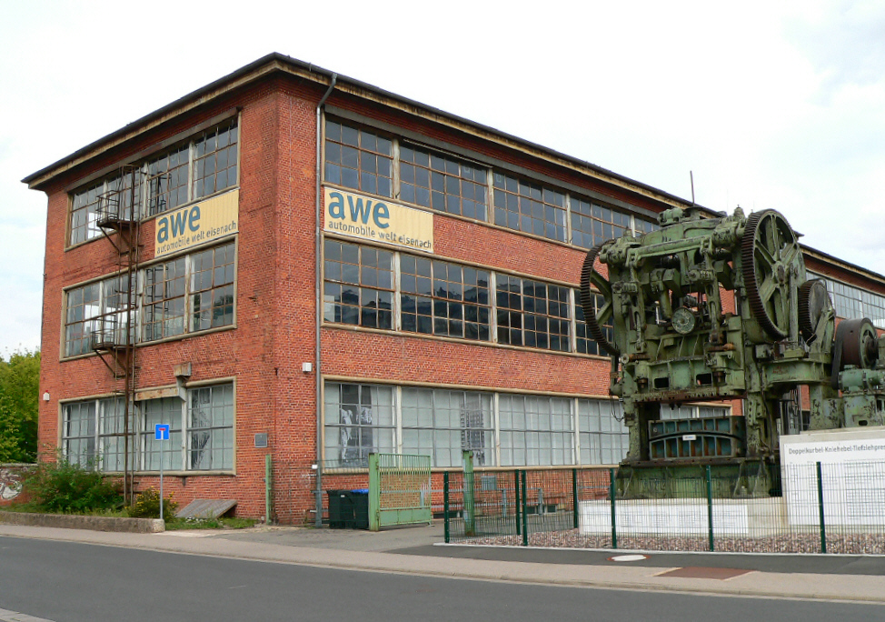 The technical museum Automobile Welt in Eisenach at the area of the former automobile factory.